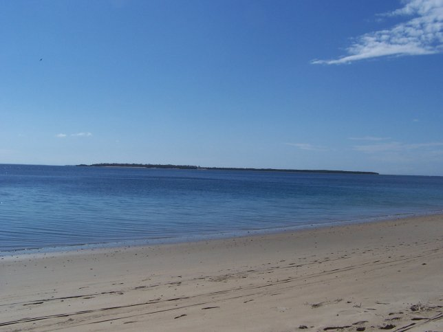 View across Mnazi Bay (Author:Tina Cordon) Tina Cordon (talk) 21:24, 24 February 2009 (UTC)